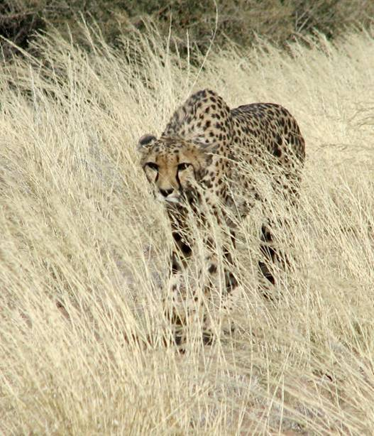 A South African cheetah, Acinonyx jubatus, in Namibia. Scott A. Christy, photographer is part of our group researching for a wiki page on Namibian Communal Wildlife Conservancies.